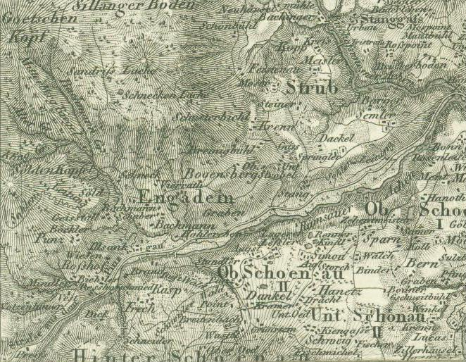 early 19th century map of Engadey area, Bischofswiesen, Berchtesgadener Land, Upper Bavaria, Germany